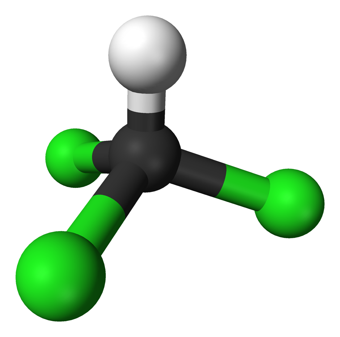 Ball-and-stick model of the chloroform molecule